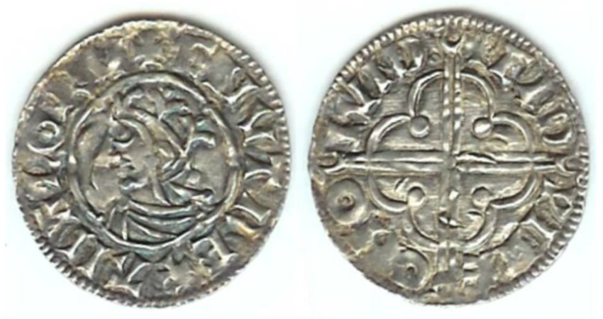 I got this here [1]. It is a website for the sale of coins, and the link here may be a boost for the subject's marketability and the owner's revenue.